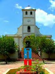 Image of the Church of Lares were the revolutionist met in 1868 at public website of the Puerto Rican Institute of Culture at